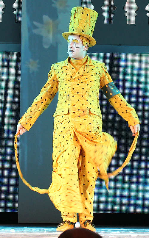 Original cast of "All about Cinderella"